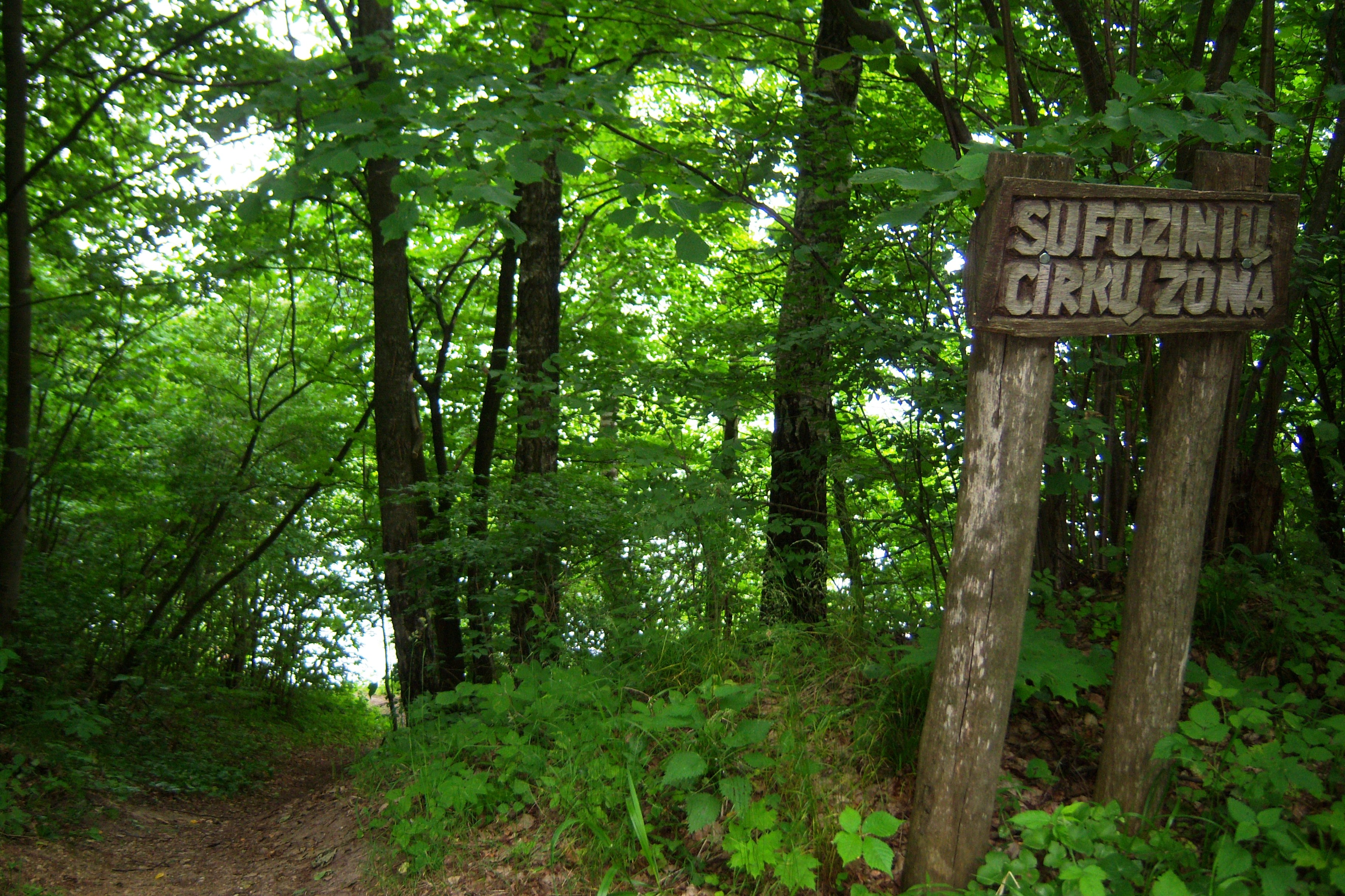 Area of sinkholes formed by the suffosion process by the lagoon of Kauno marios, in Vaišvydava, Kaunas, Lithuania